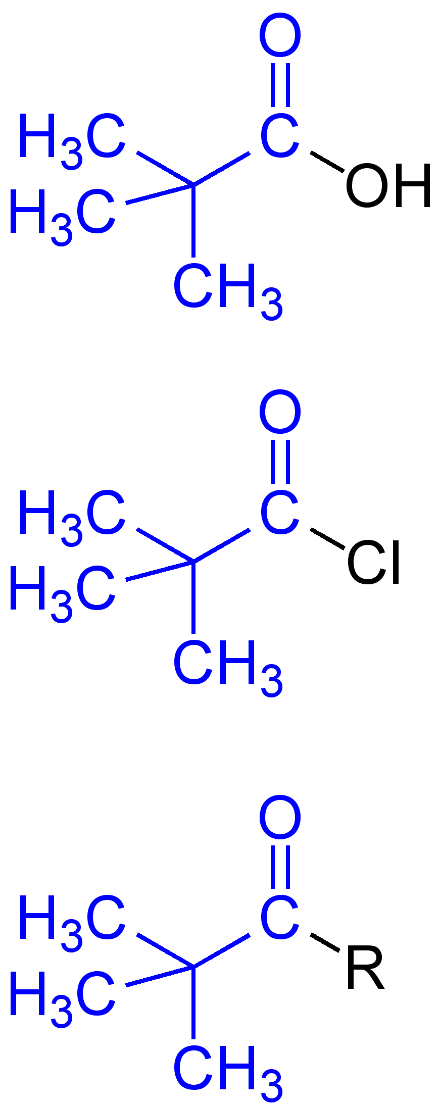 Pivaloyl_Group_General_Formulae